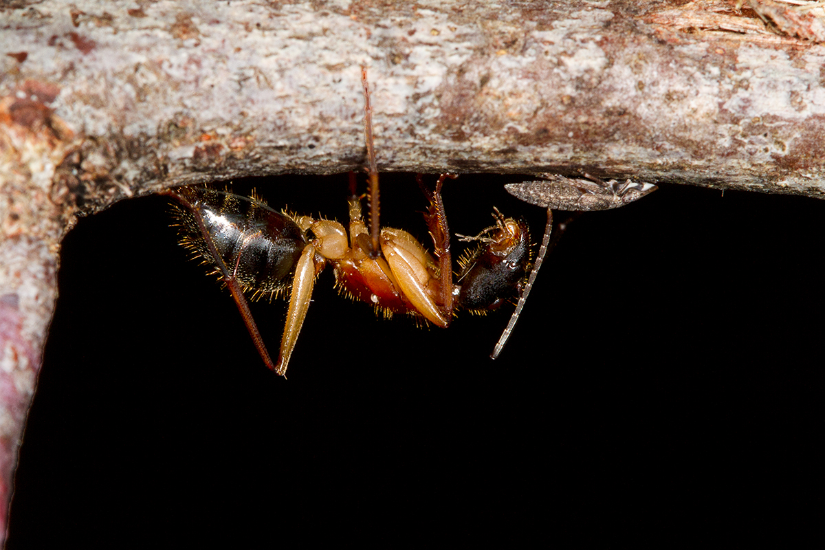 Black-headed Sugar Ant (Camponotus nigriceps)